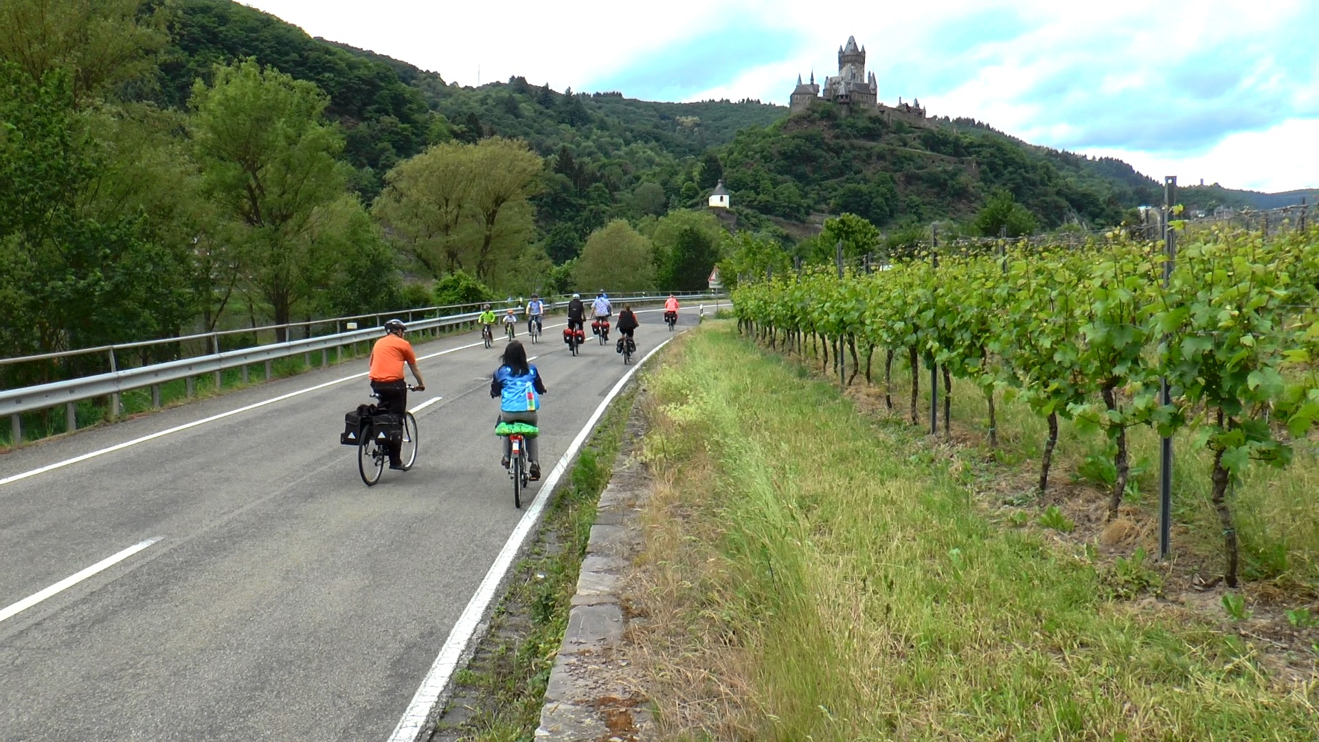 "Happy Mosel" on L 98 between Valwig and Cond with view to Cochem Imperial castle beyond Moselle.